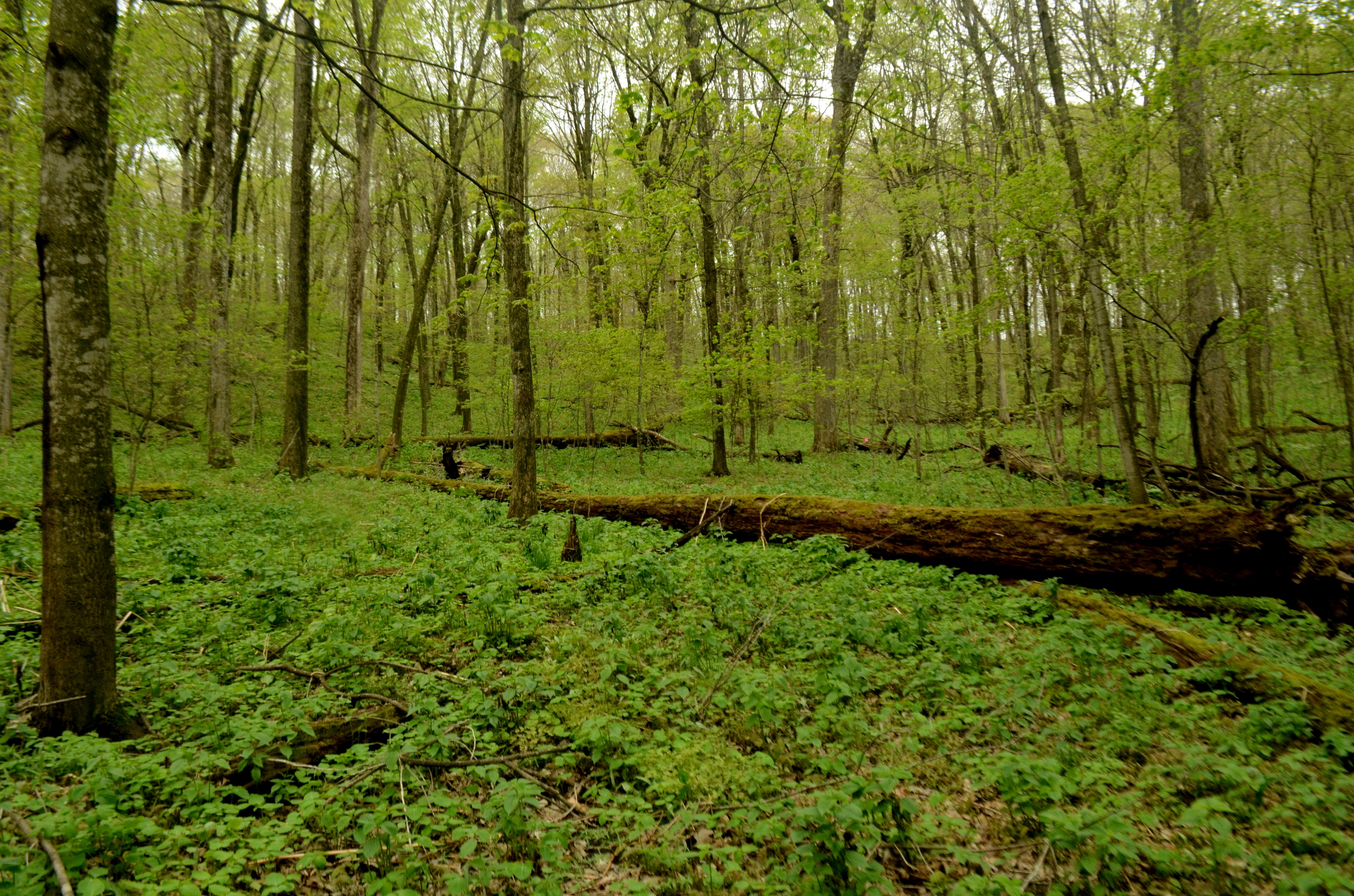 Abraham's Woods Wisconsin State Natural Area #38 University of Wisconsin Arboretum Green County